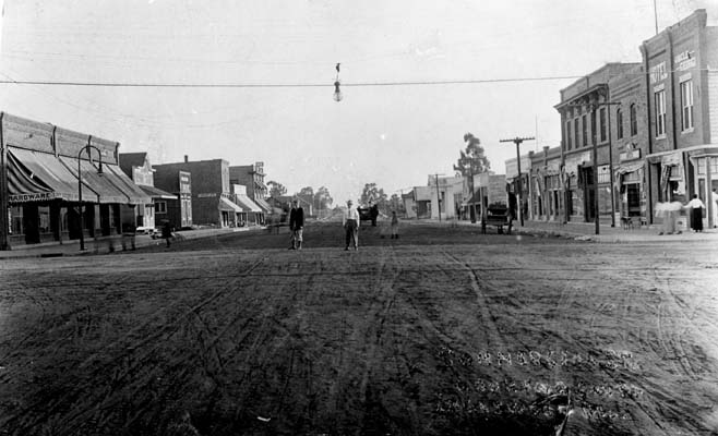 Inglewood, 1910. The view is of Commercial Street, later a part of La Brea Avenue.